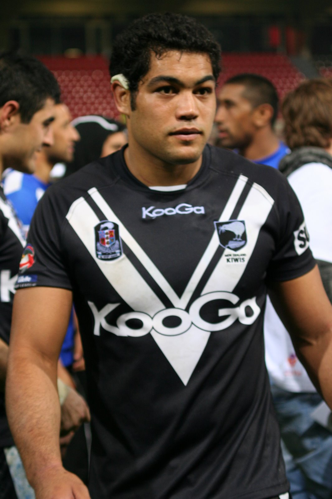 Adam Blair, New Zealand rugby league player.